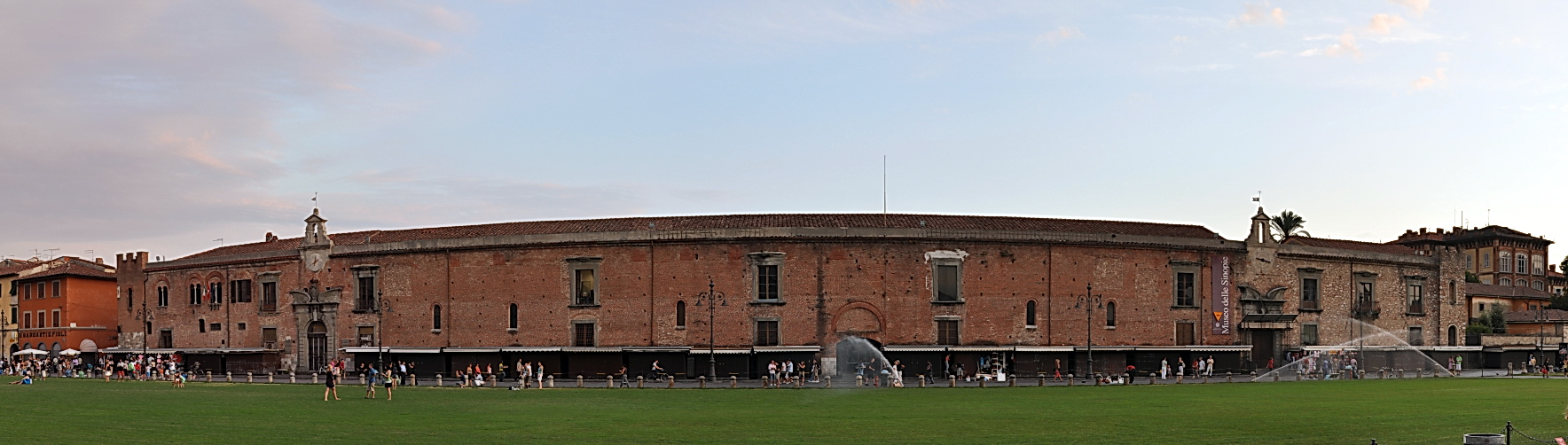 The old building of Santo Spirito Hospital (XIII century), nowadays hosts the Museum of Sinopites.